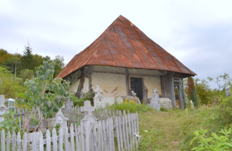 Wooden church in Balta, Mehedinți county, Romania